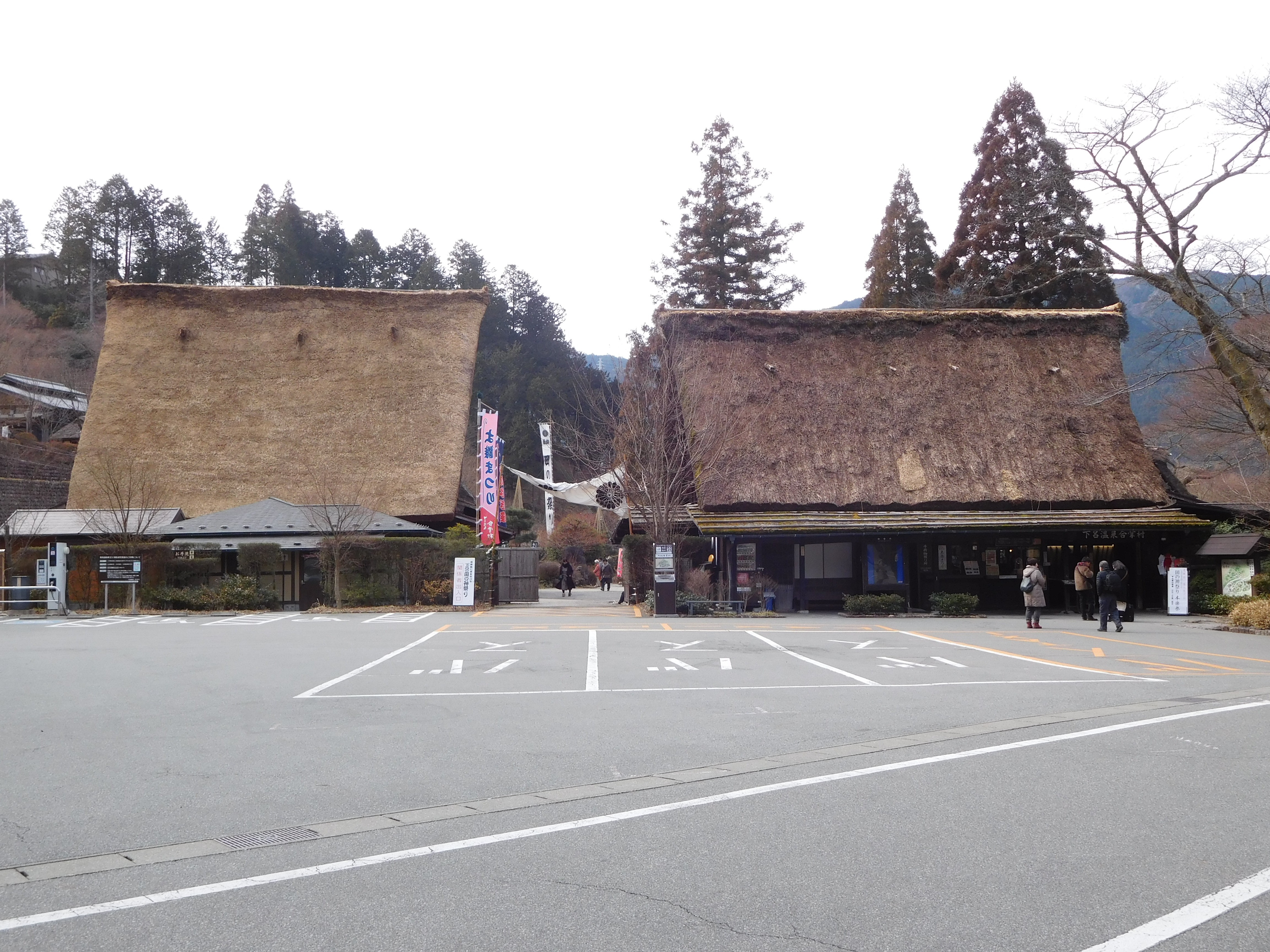 This is Gero Onsen Gassho-mura in Gero, Gifu, Japan.